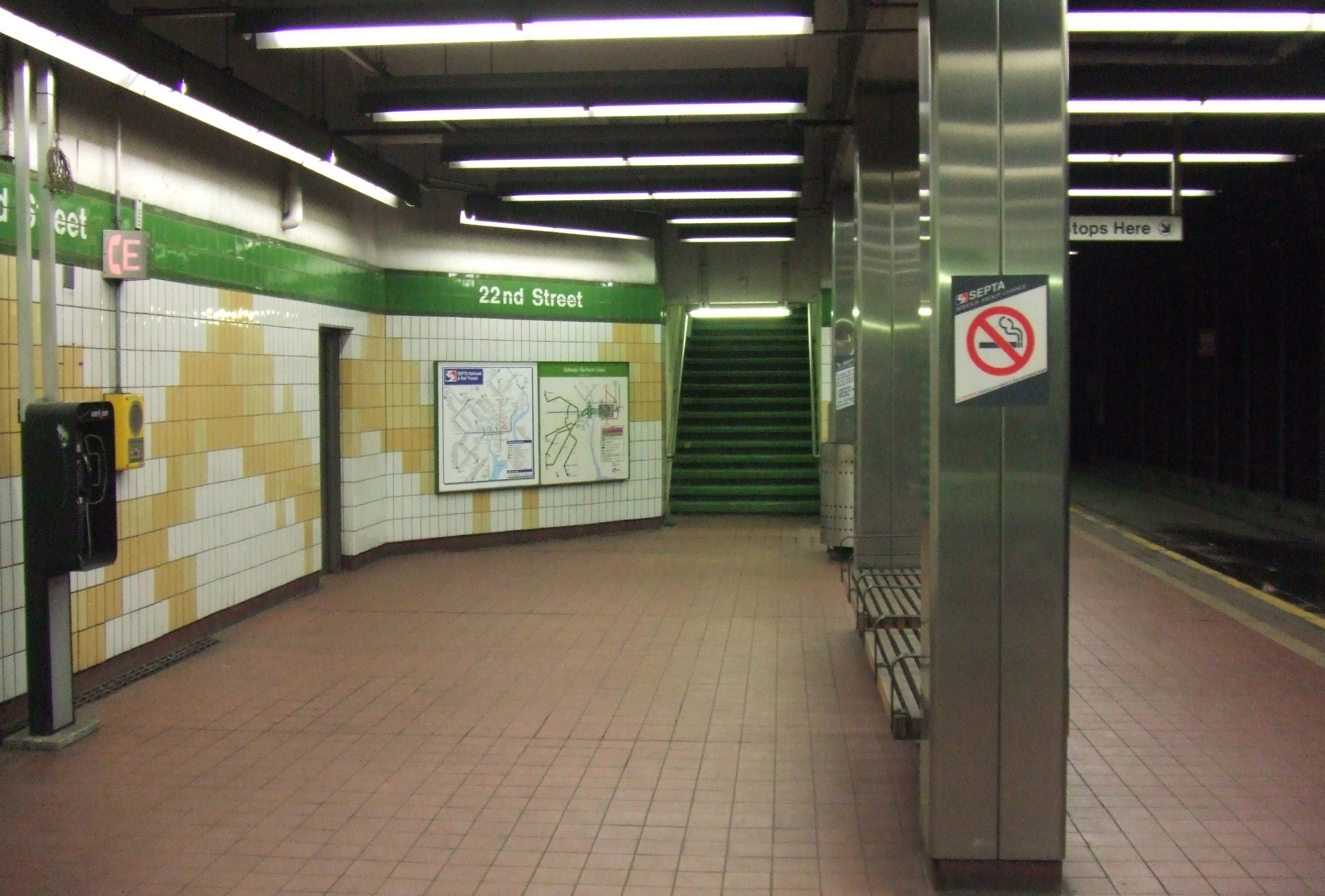 Taken on August 24, 2006. Trolleybus 04:35, 25 August 2006 (UTC)